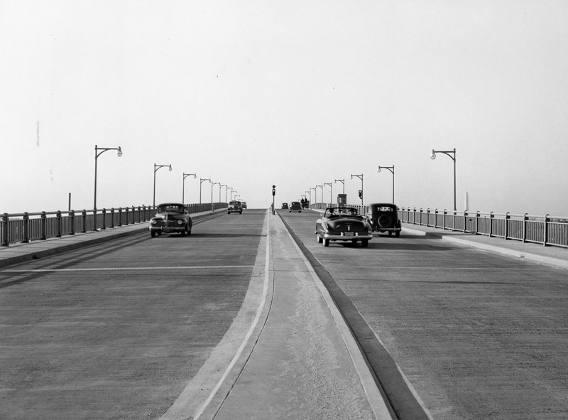 A photo of the Frederick Douglass Memorial Bridge in Washington, D.C. on opening day, January 14, 1950. The bridge opened as the South Capitol Street Bridge as it carries South Capitol Street across the Anacostia River.